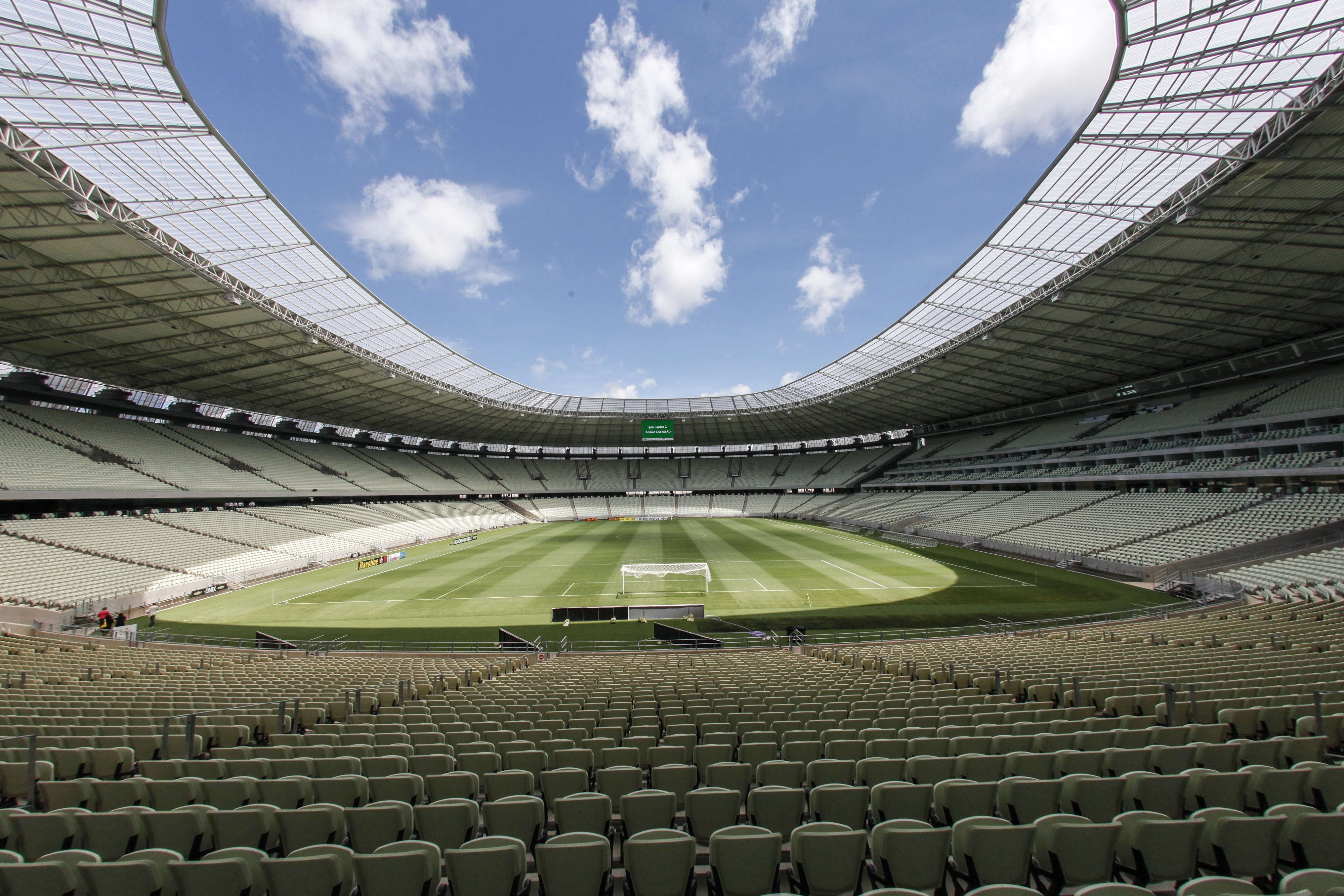 Castelão Arena (3)